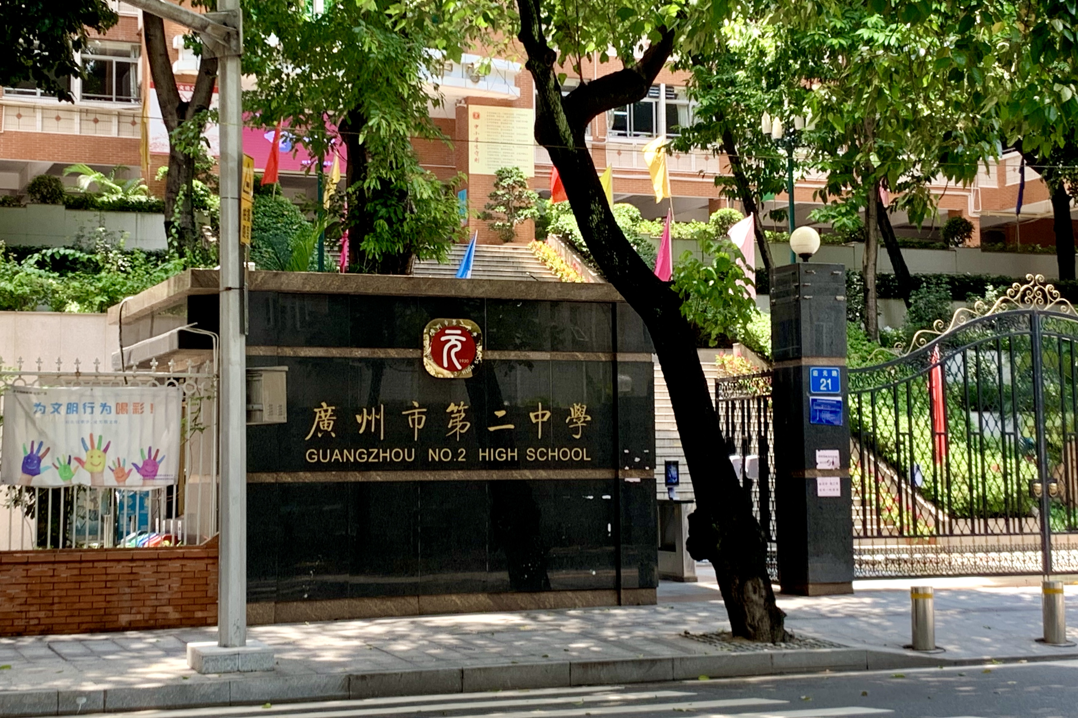 Entrance of Yingyuan Road Campus, Guangzhou No.2 High School